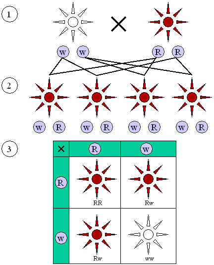 Dominant and recessive phenotypes. (1) Parental generation. (2) F1 generation. (3) F2 generation. Dominant (red) and recessive (white) phenotype look alike in the F1 (first) generation and show a 3:1 ratio in the F2 (second) generation Originally from Nupedia, by Magnus Manske 11:18, 10 January 2003 Magnus Manske 432x535 (4,955 bytes) (From :en:Nupedia ) Corrected version uploaded on November 13th, 2007 by User:Dietzel65: Previously, the lines would connect the same two parental genes twice.